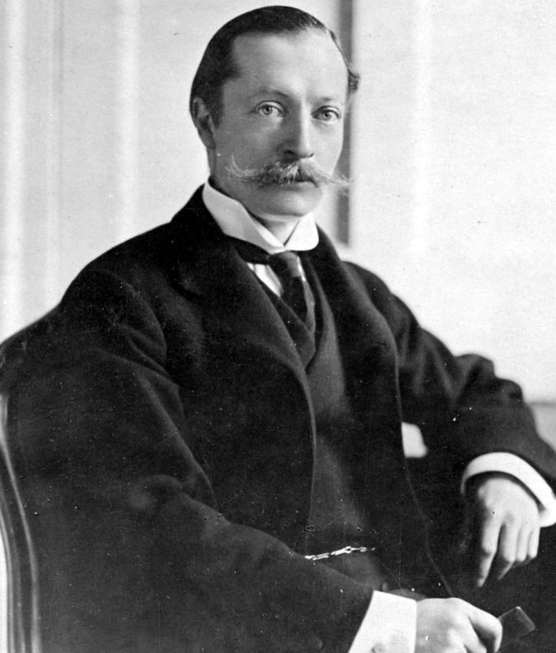 Harold Tennant. Title from data provided by the Bain News Service on the negative. Call Number: LC-B2- 3450-6. General information about the Bain Collection is available at Format: Glass negatives. 5 x 7 in. or smaller.